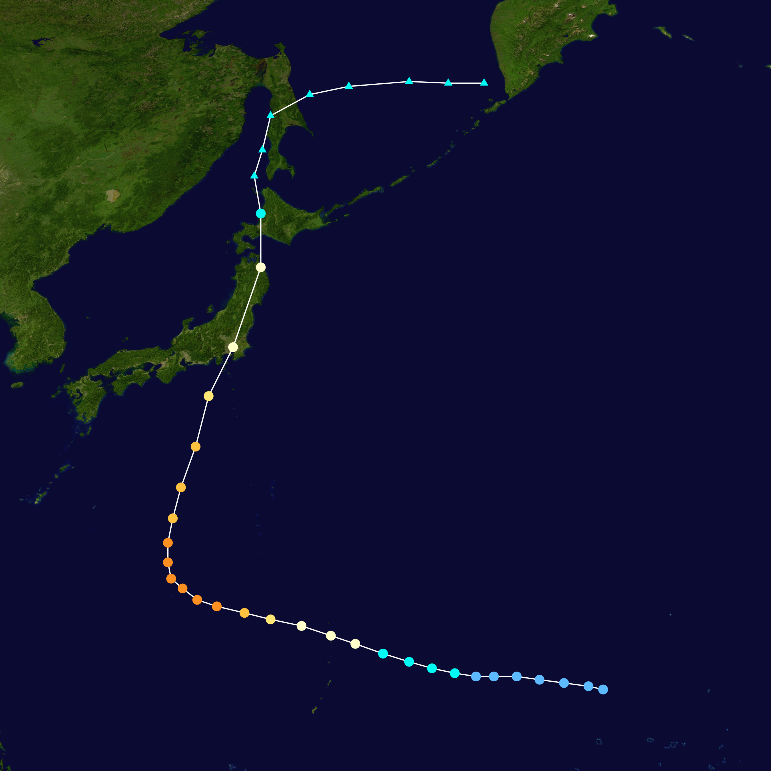 Typhoon Higos 2002 track. Uses the color scheme from the Saffir-Simpson Hurricane Scale.